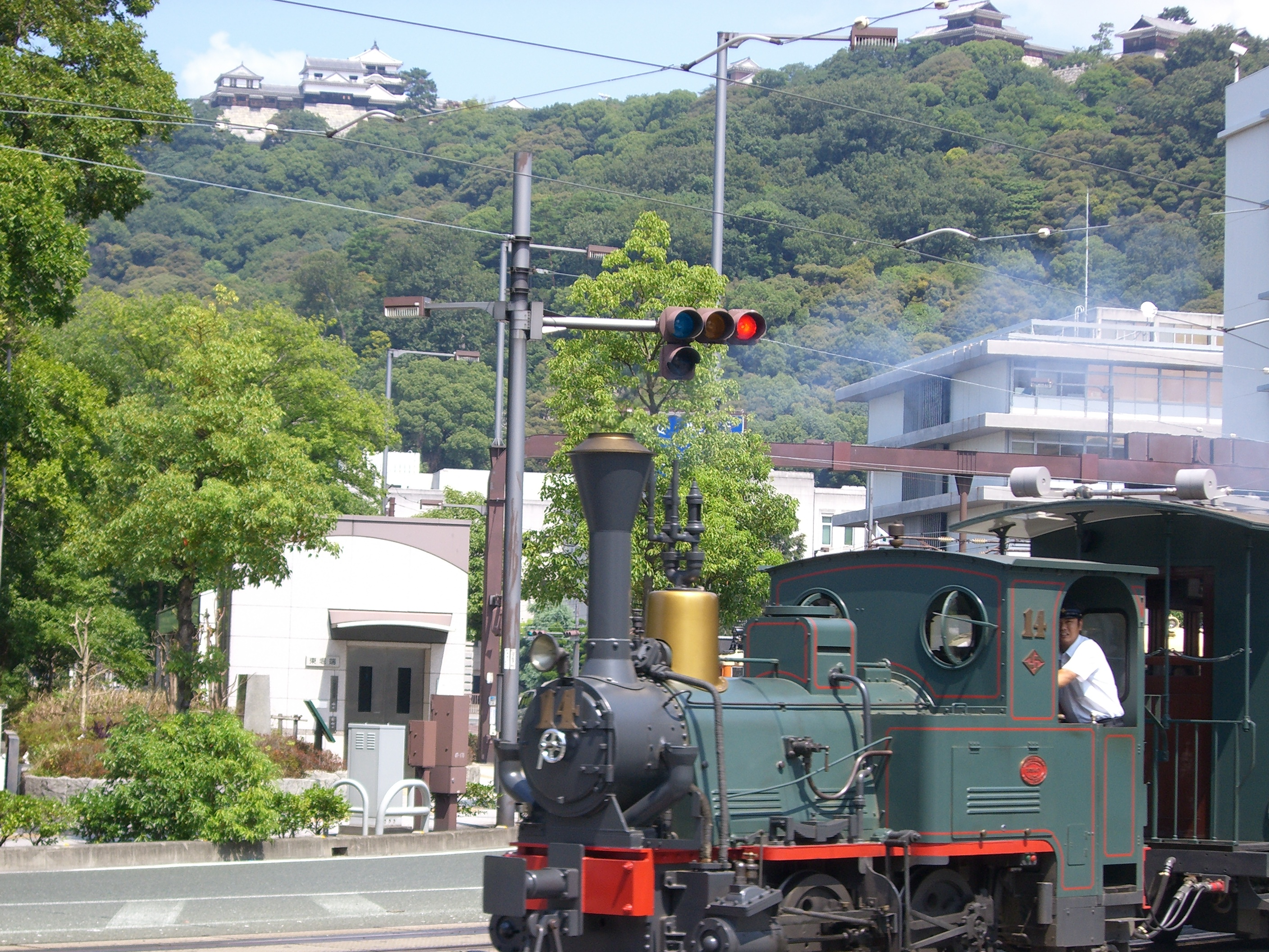 “Botchan Train”(Matsuyama City)： The original Botchan Train was a steam locomotive named after Soseki Natsume's novel Botchan. The present Botchan Train was reproduced in 2001. The styling of the train is retro, but it is powered by diesel engine. The body is dark green and the interior has wooden couches like the ones used for the original German-made steam locomotive.(Ehime, JAPAN)